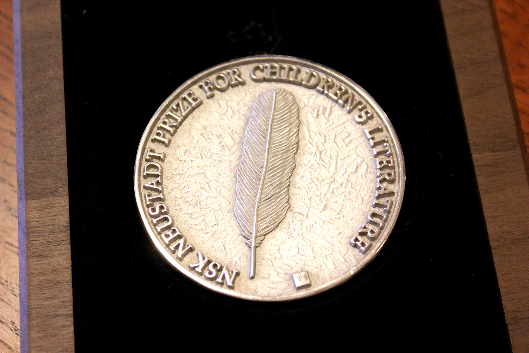 The NSK Prize silver medallion in a hand-carved box with black velvet trim.